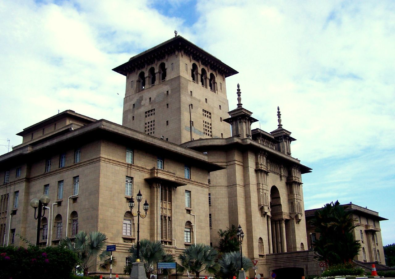 Sultan Ibrahim Bldg, Bukit Timbalan, Johor Bahru.